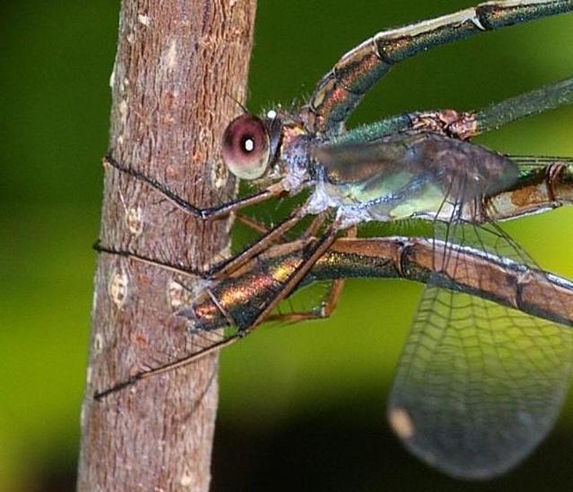 Willow Emerald Damselfly (Chalcolestes viridis); male and female specimen in "tandem arrangement" laying eggs into the bark of Frangula alnus.